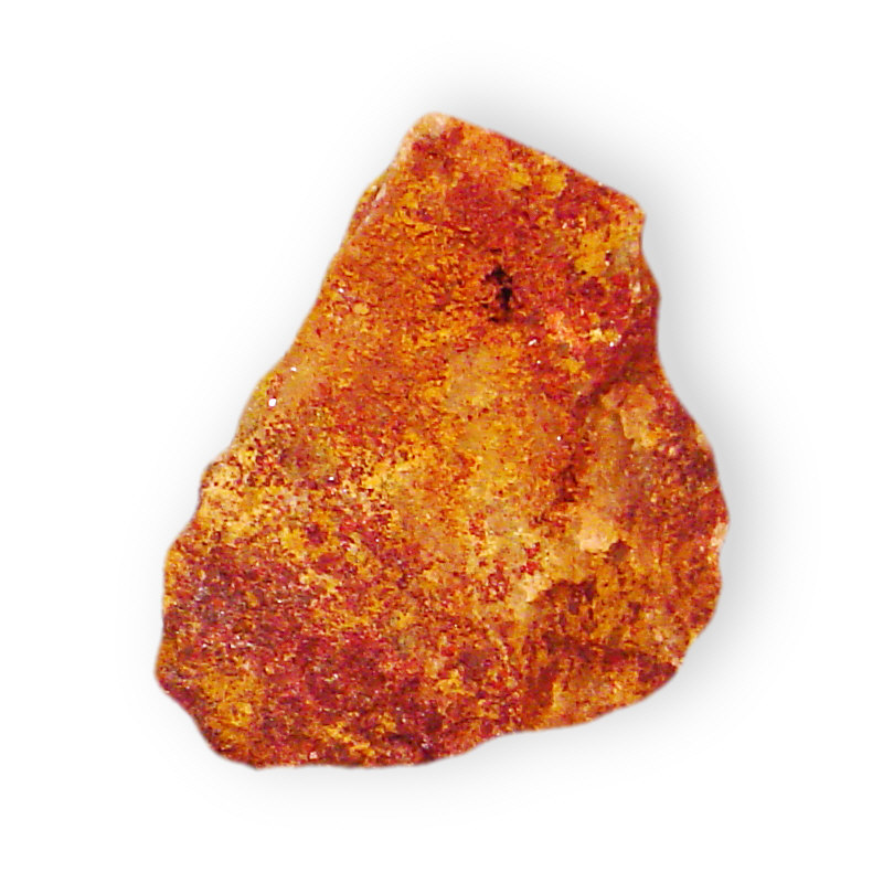 These mineral images are free to use how you wish.